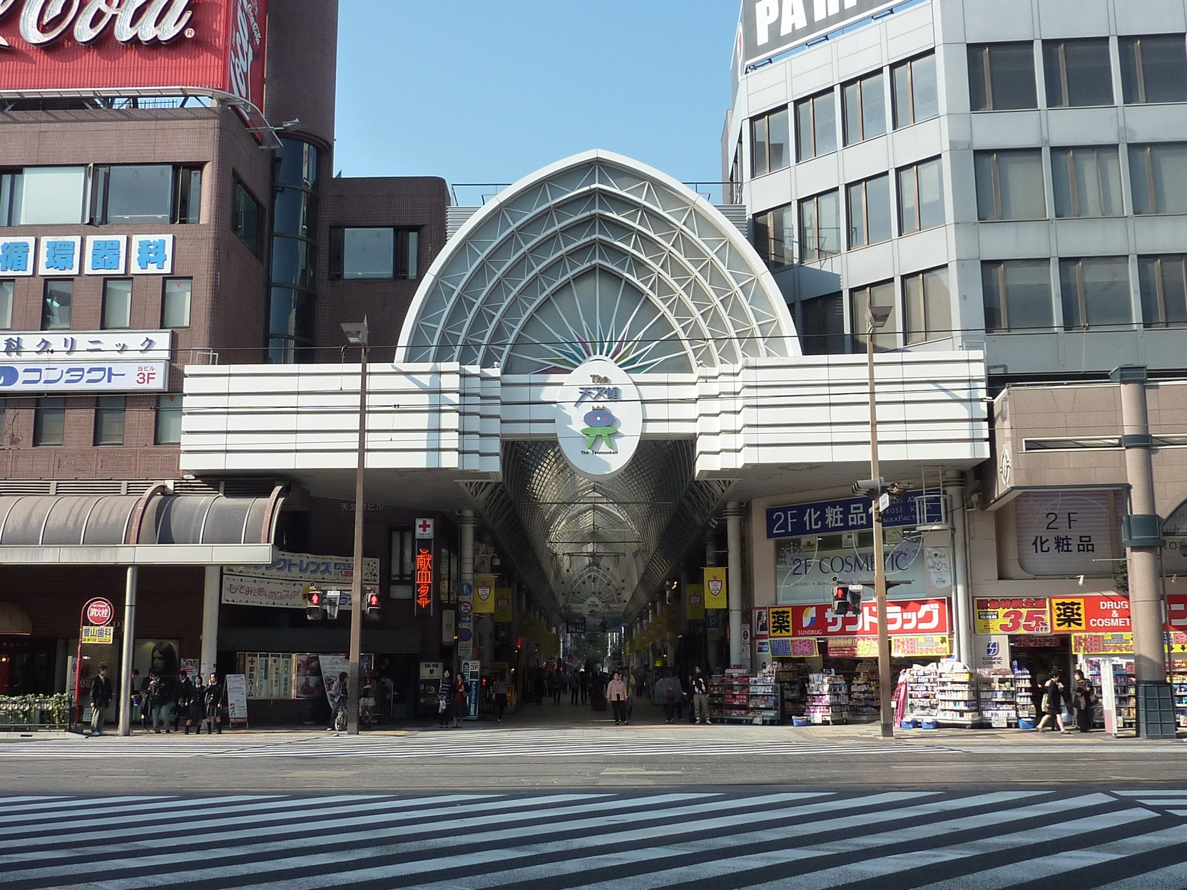 The Tenmonkan Street is in Central Kagoshima City, Japan.